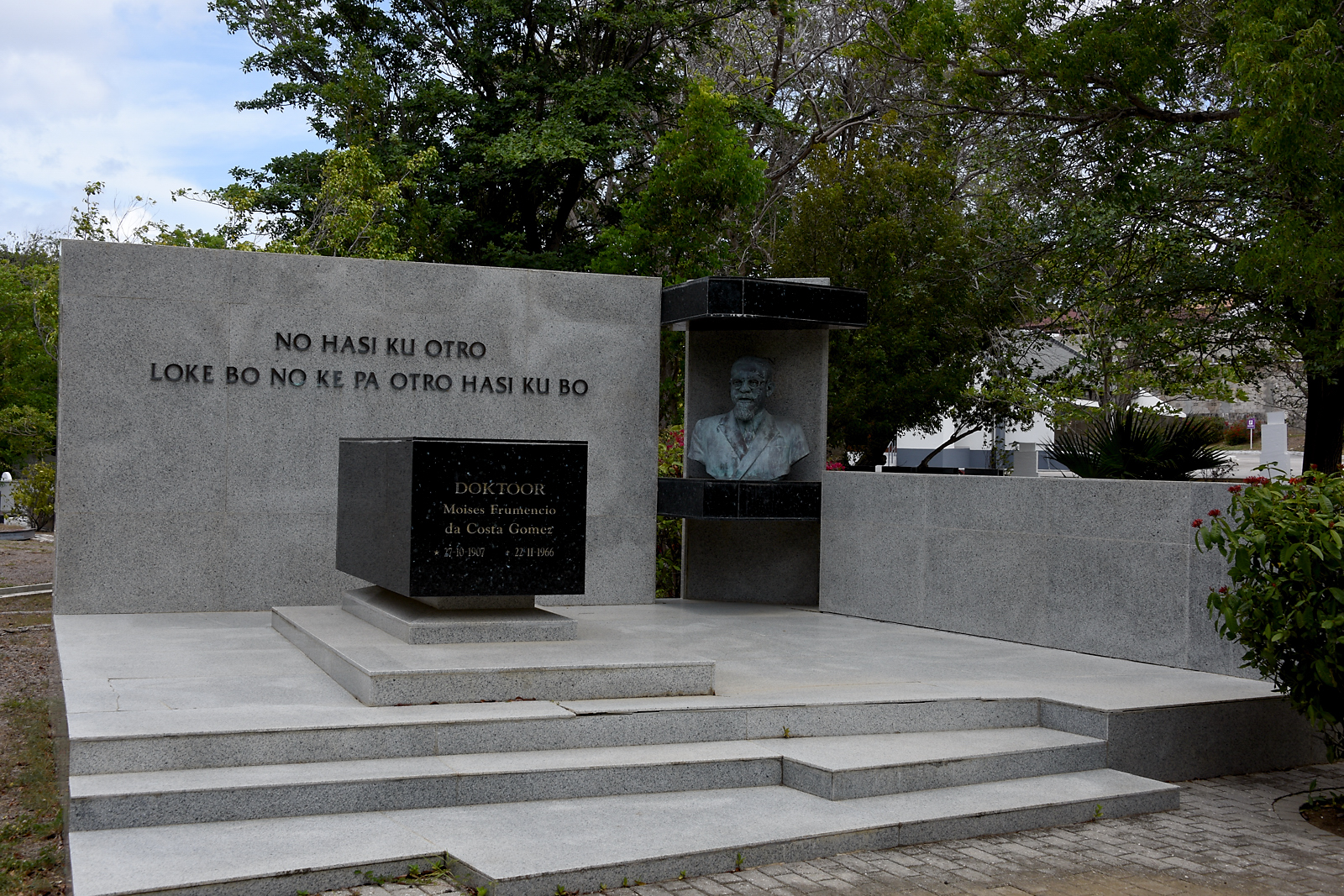 The burial site of Dr. da Costa Gomez. A marble monument on a raised platform, with the crypt, head-and-shoulders bust, and message in Papiamento. The message translates roughly to "Do unto others as you would have others do unto you.”